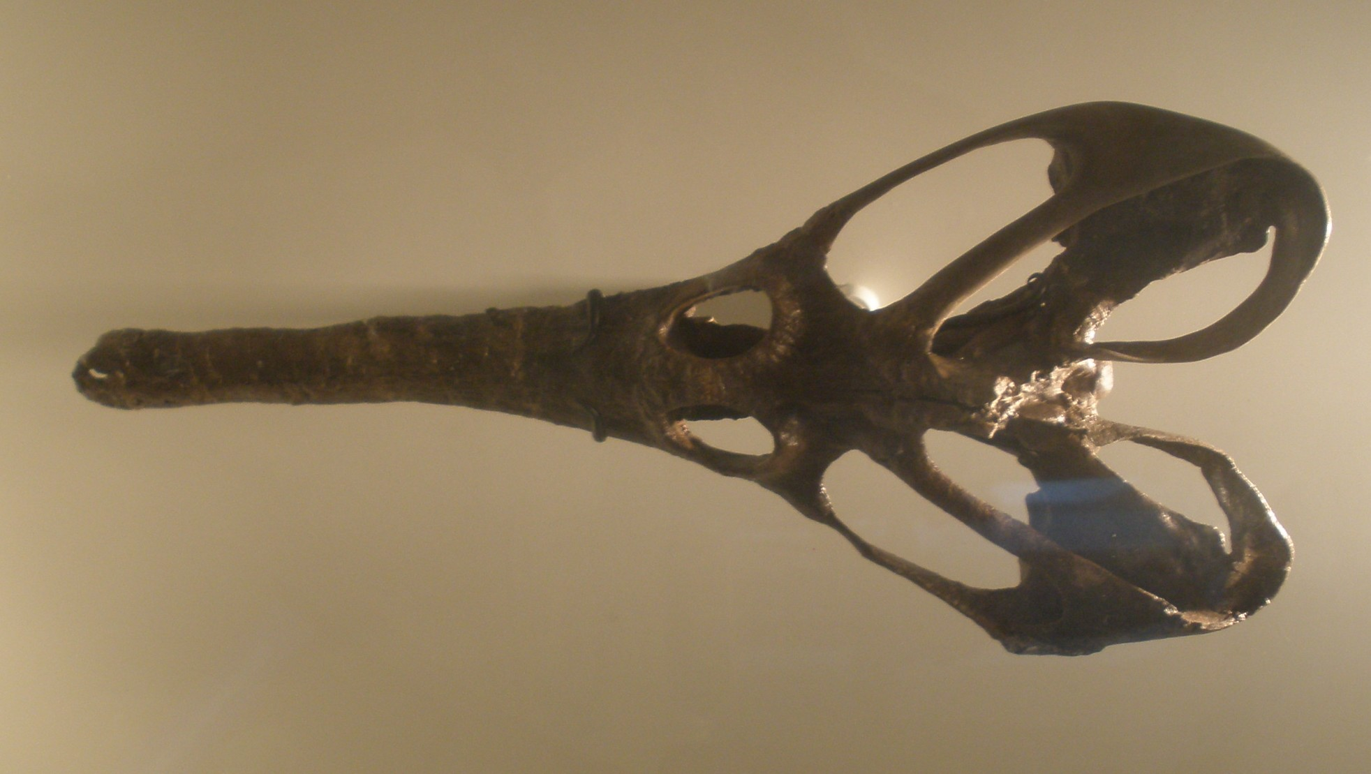 Skull of Champsosaurus laramiensis, a champsosaur